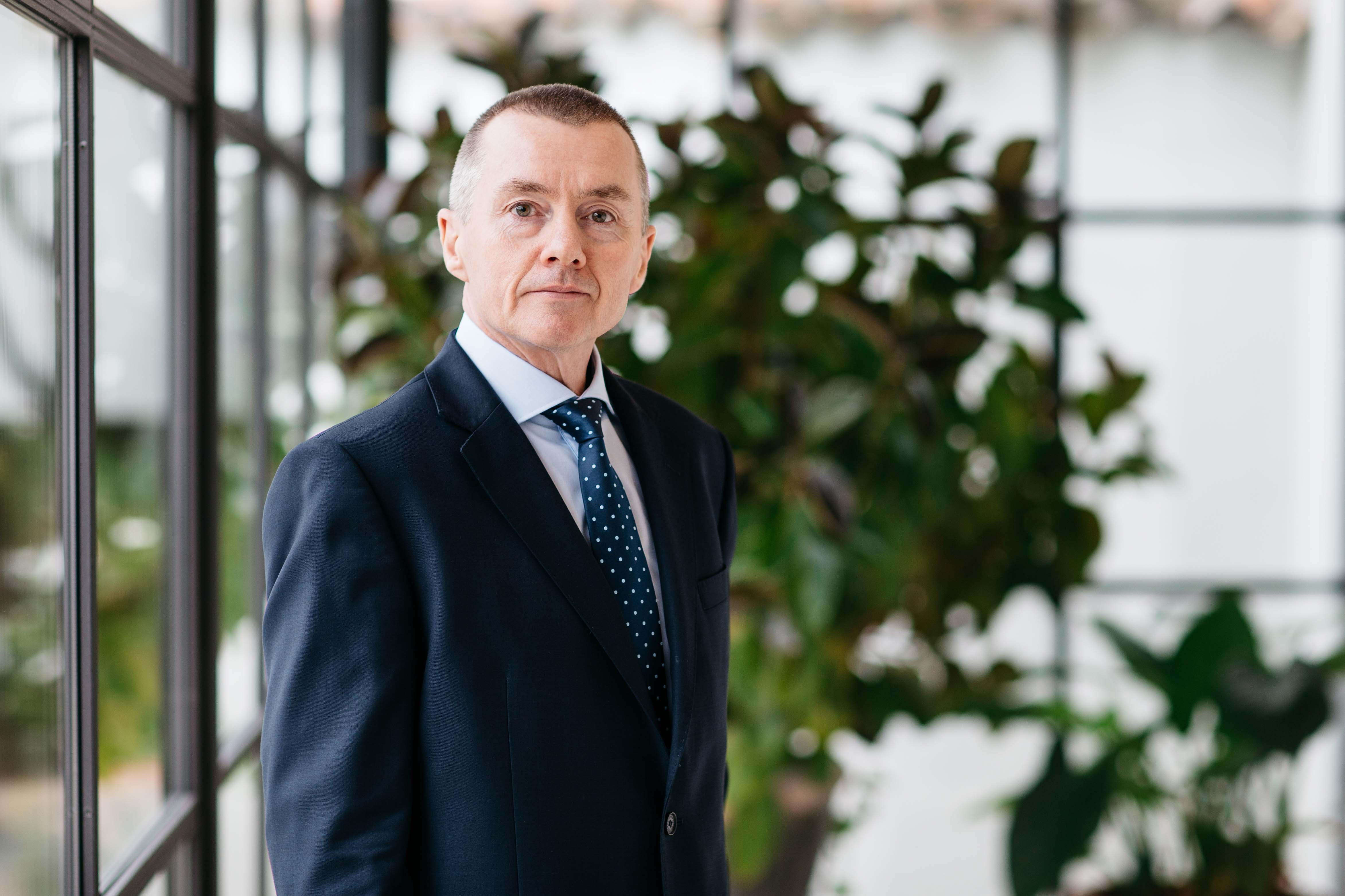 Willie Walsh - CEO of International Airlines Group (IAG)